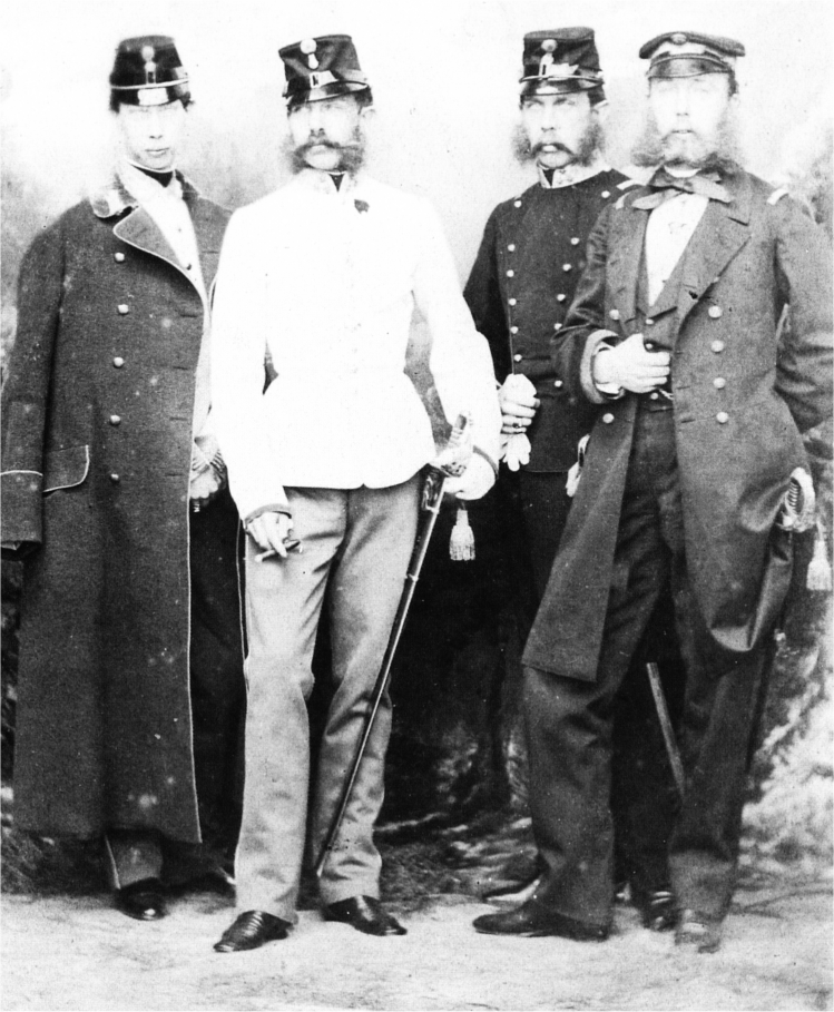 Emperor Francis Joseph I. of Austria-Hungary beside his brothers. From left to right: Archduke Ludwig Viktor of Austria, Kaiser Franz Josef, Archduke Karl Ludwig of Austria, Archduke Ferdinand Maximilian of Austria, Emperor of Mexico